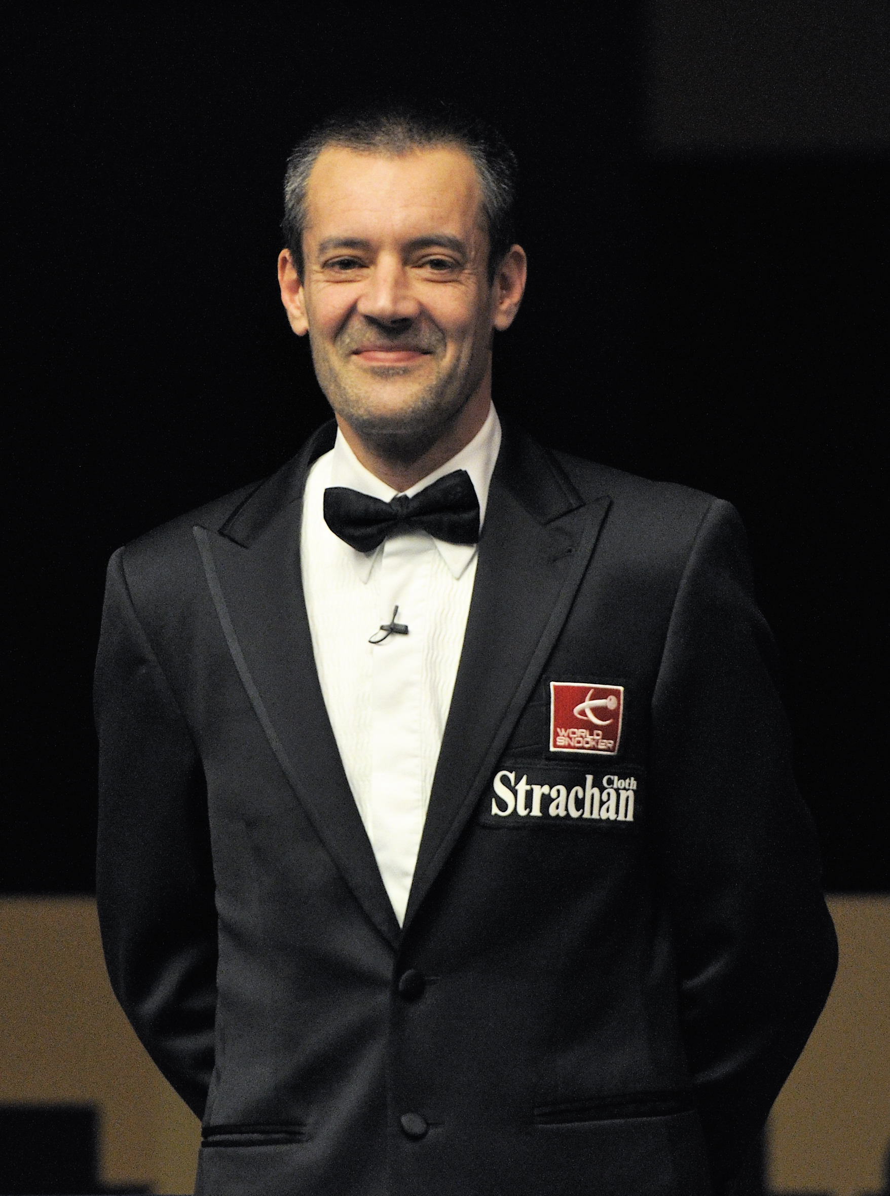 Picture taken in Berlin during the Snooker German Masters in 2013. Olivier Marteel.